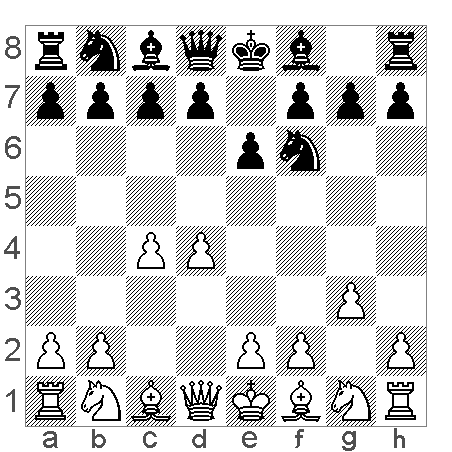 chess diagram Catalans defence Source: CBlight + my processing